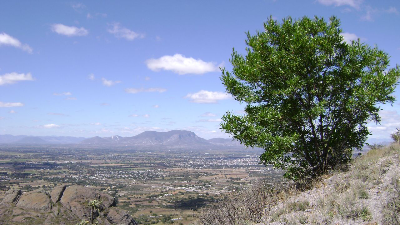 Un pequeño árbol observa el lejano horizonte desde lo alto de la ladera.